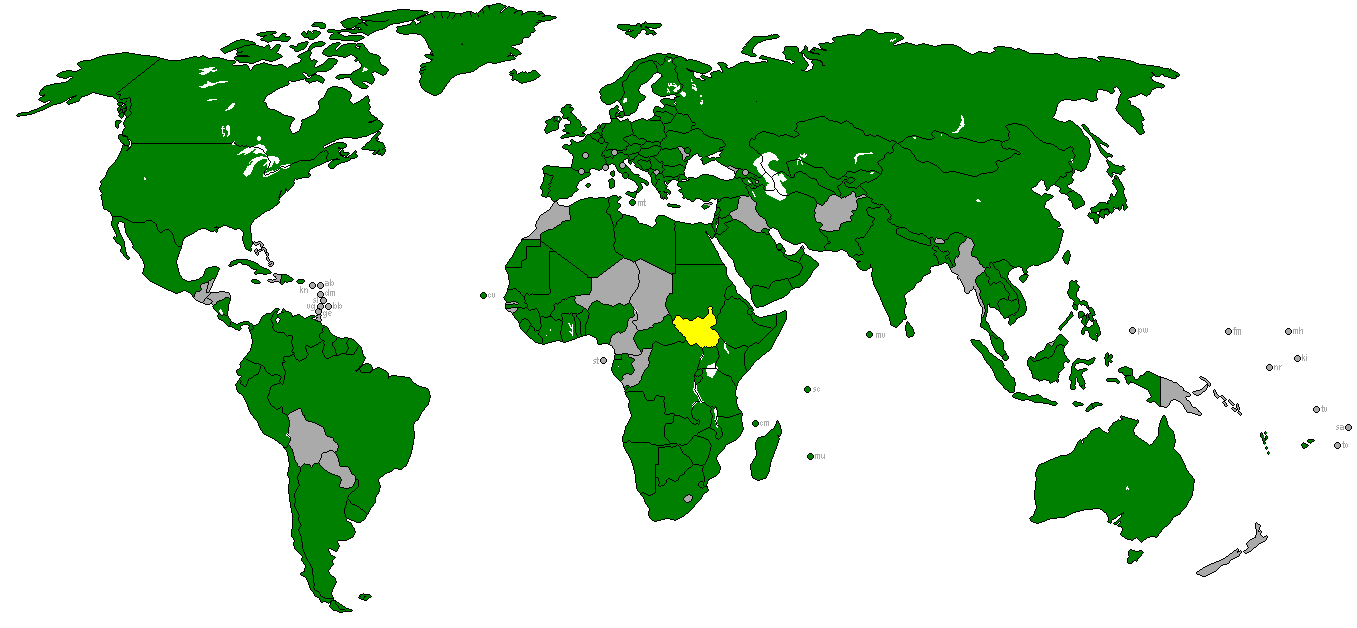 Countries Recognizing South Sudan.